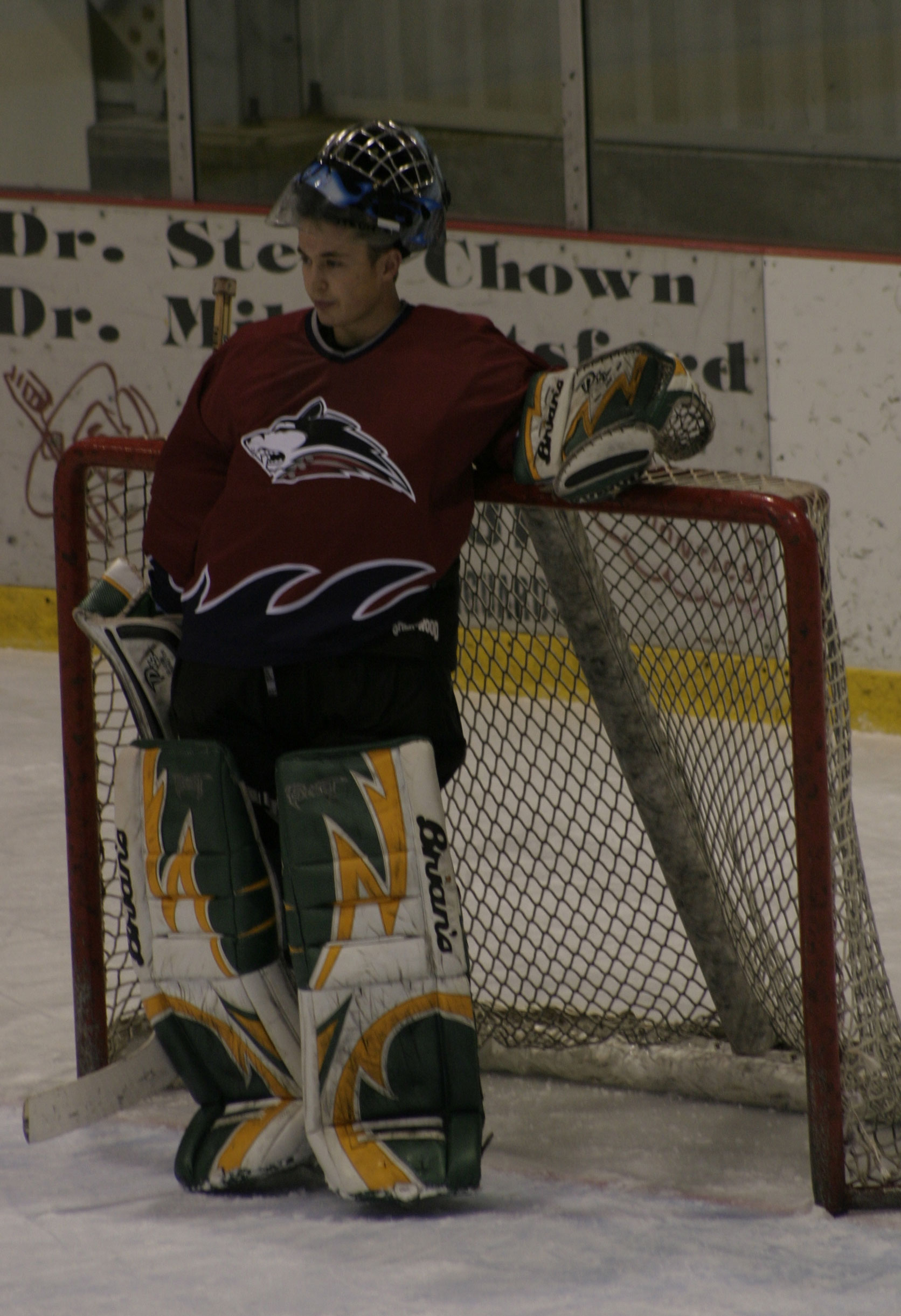 Dryden Ice Dogs' goaltender Graeme Harrington reclines between plays during a game at Fort Frances against the Jr. Sabres on 9 Oct. 2007.